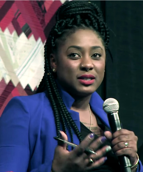 Alicia Garza, American activist and co-founder of Black Lives Matter